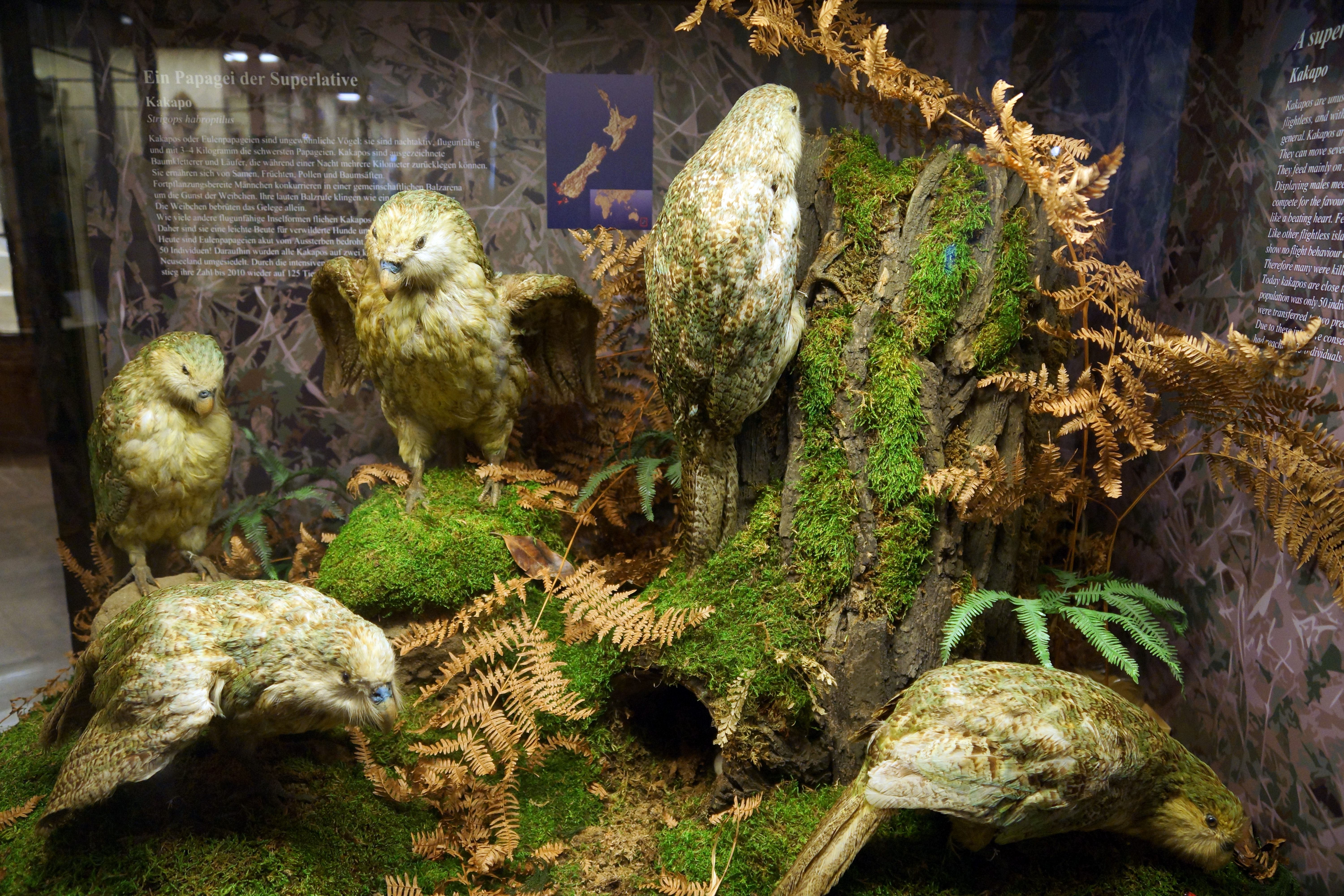 Kakapo exhibit at the Naturhistorisches Museum in Vienna